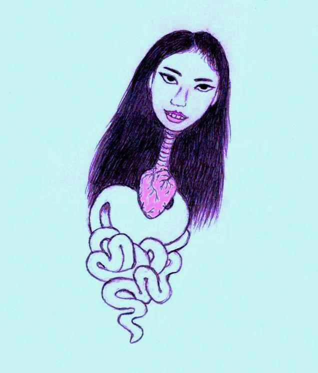 Krasue (Thai) or Ab (Khmer). a nocturnal female spirit of Southeast Asian folklore